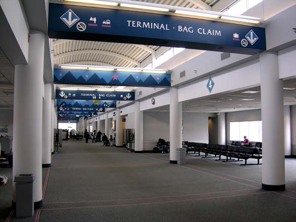 Main Concourse in the Roanoke Regional Airport, Roanoke, Virginia